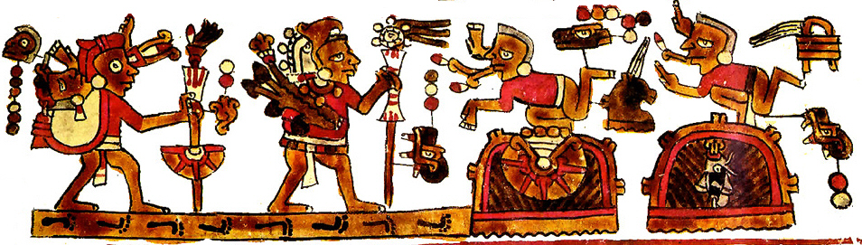 Codex Selden, pg 07, panel 3. Lord 2 Flower (who is carrying Lady Six Monkey on his back) and Lord 3 Crocodile meet Lord 6 Lizard and Lord 2 Crocodile, who threaten them by speaking "flint knife" words.